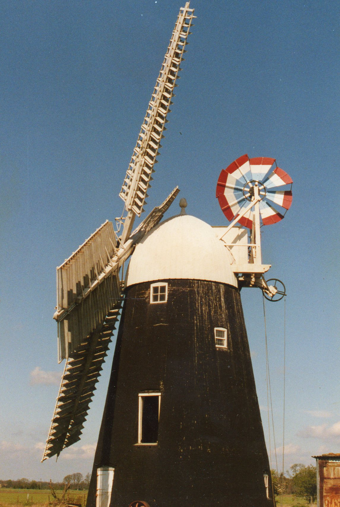 Thelnetham Windmill, Suffolk after restoration